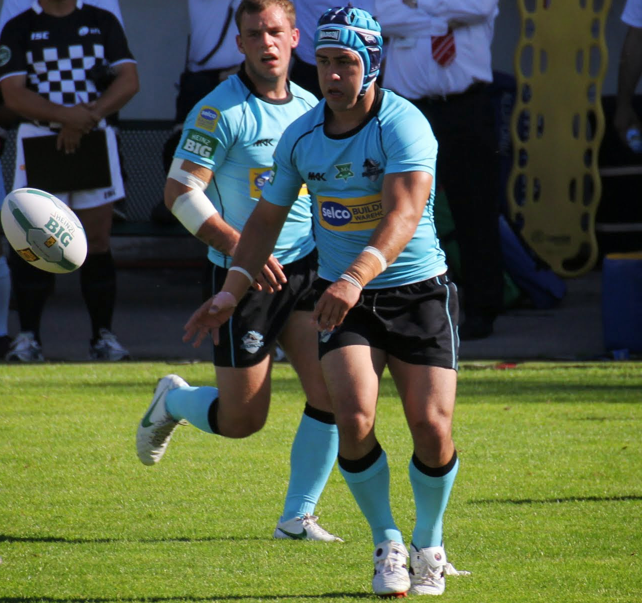 Jamie Soward London Broncos